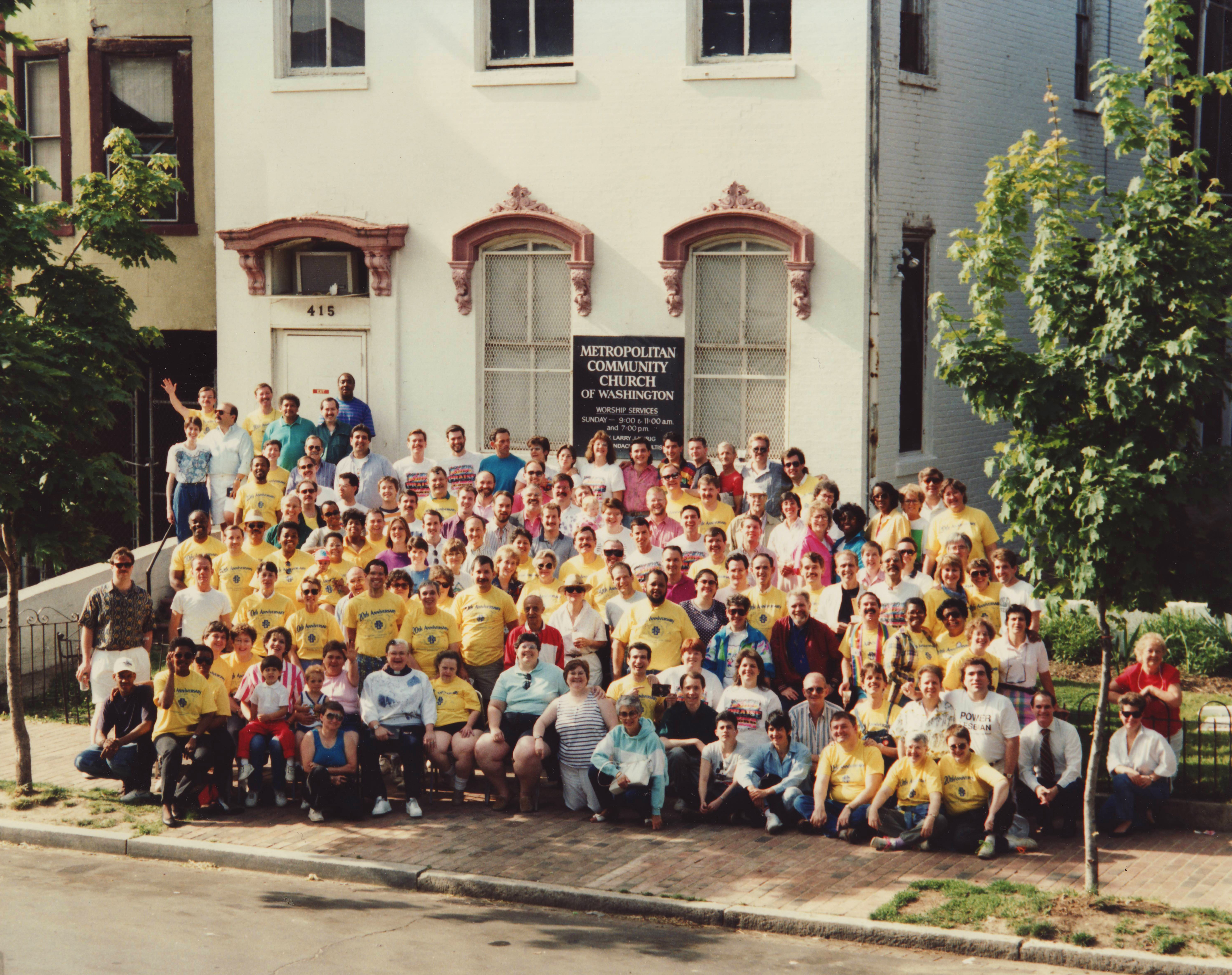 Metropolitan Community Church of Washington, D.C. at their former building, 415 M Street NW.